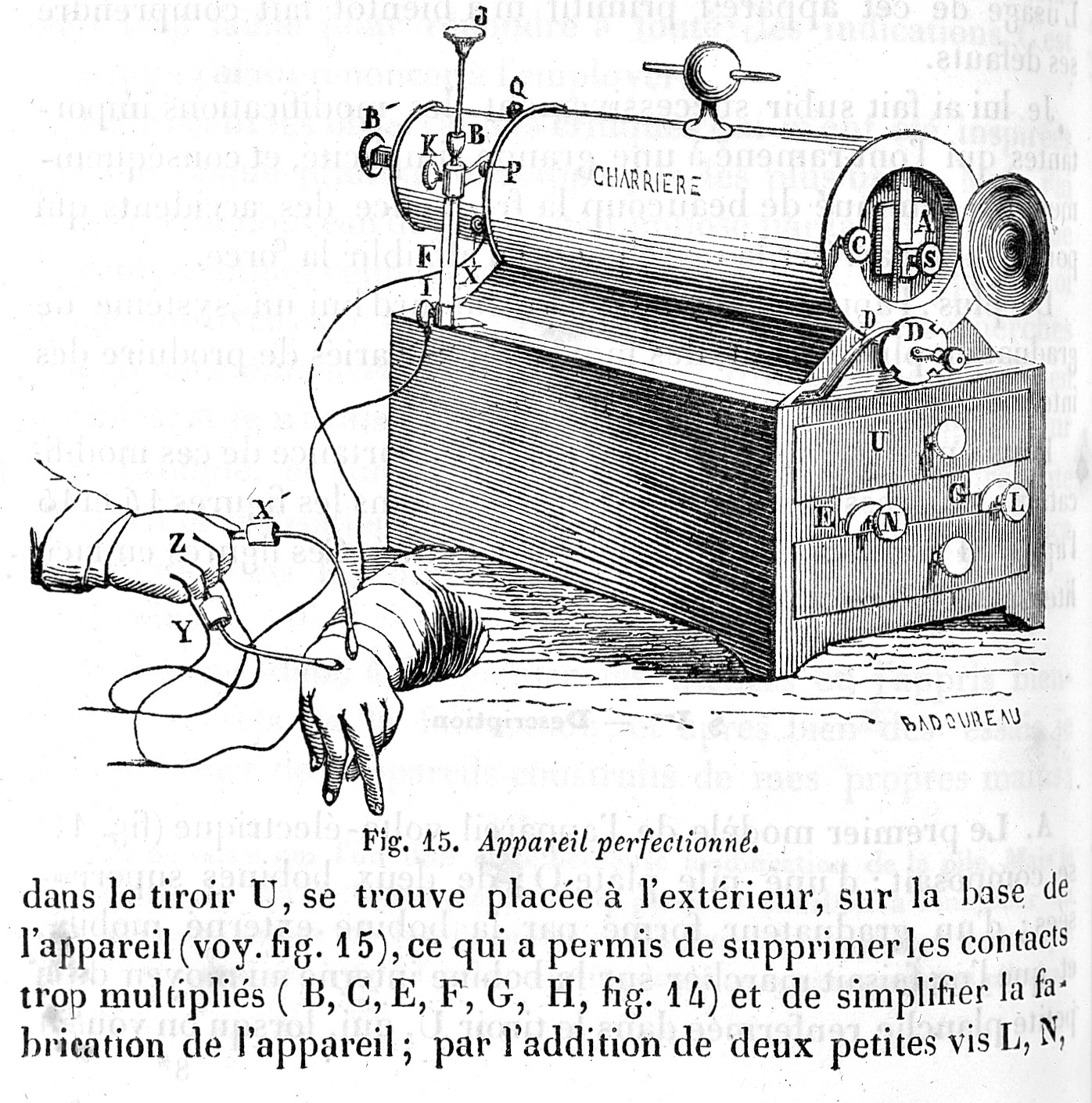 Duchenne's apparatus for electrotherapy. An early version. General Collections Keywords: Electrotherapy; Therapeutics; Guillaume Benjamin Amand Duchenne de Boulogne